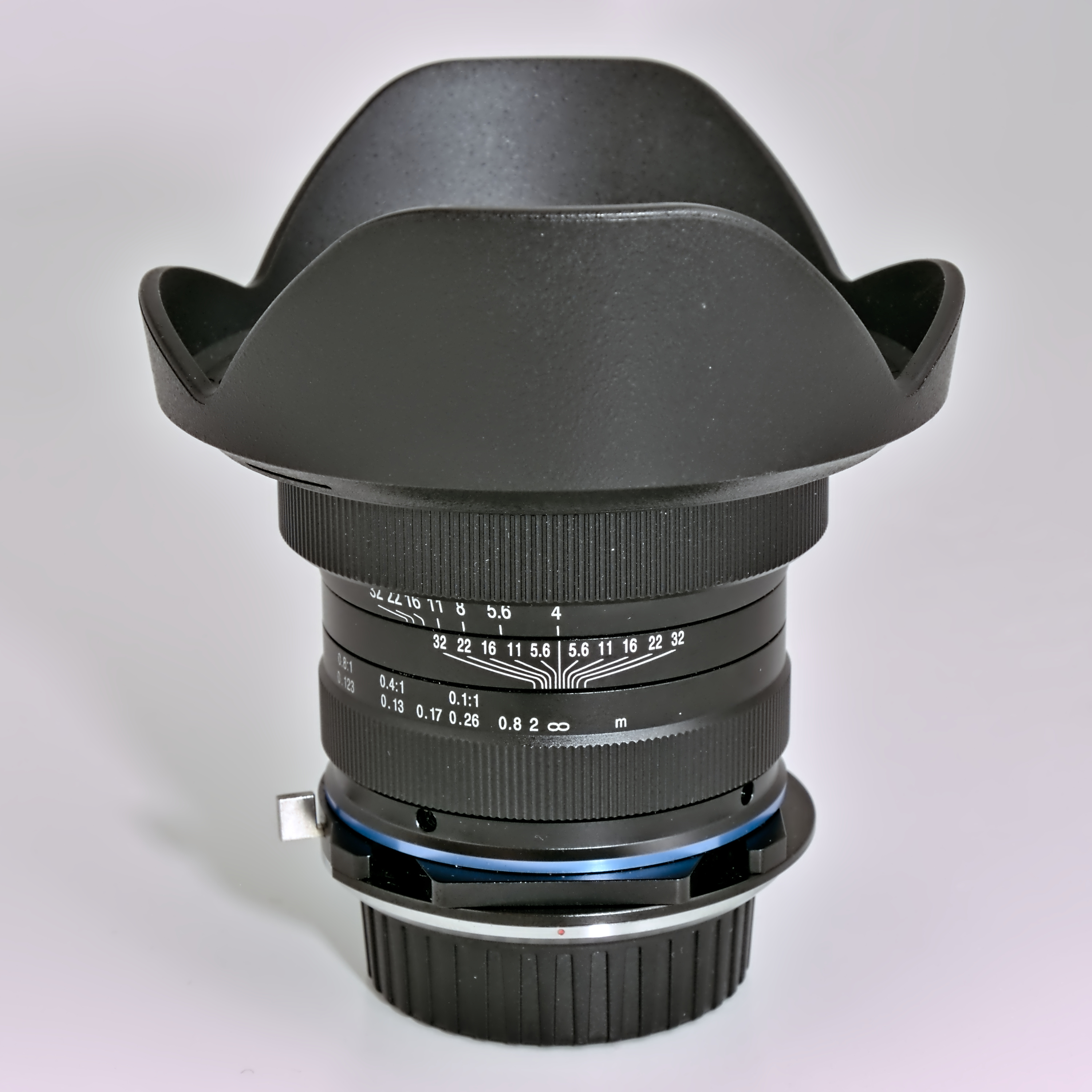 Venus Optics Laowa 15 mm f/4 wide angle macro lens with lens hood, version Nikon-F mount